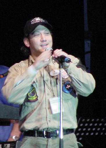 Picture of Rob Schneider taken during a USO/DoD Celebrity Tour at Eagle Base 14